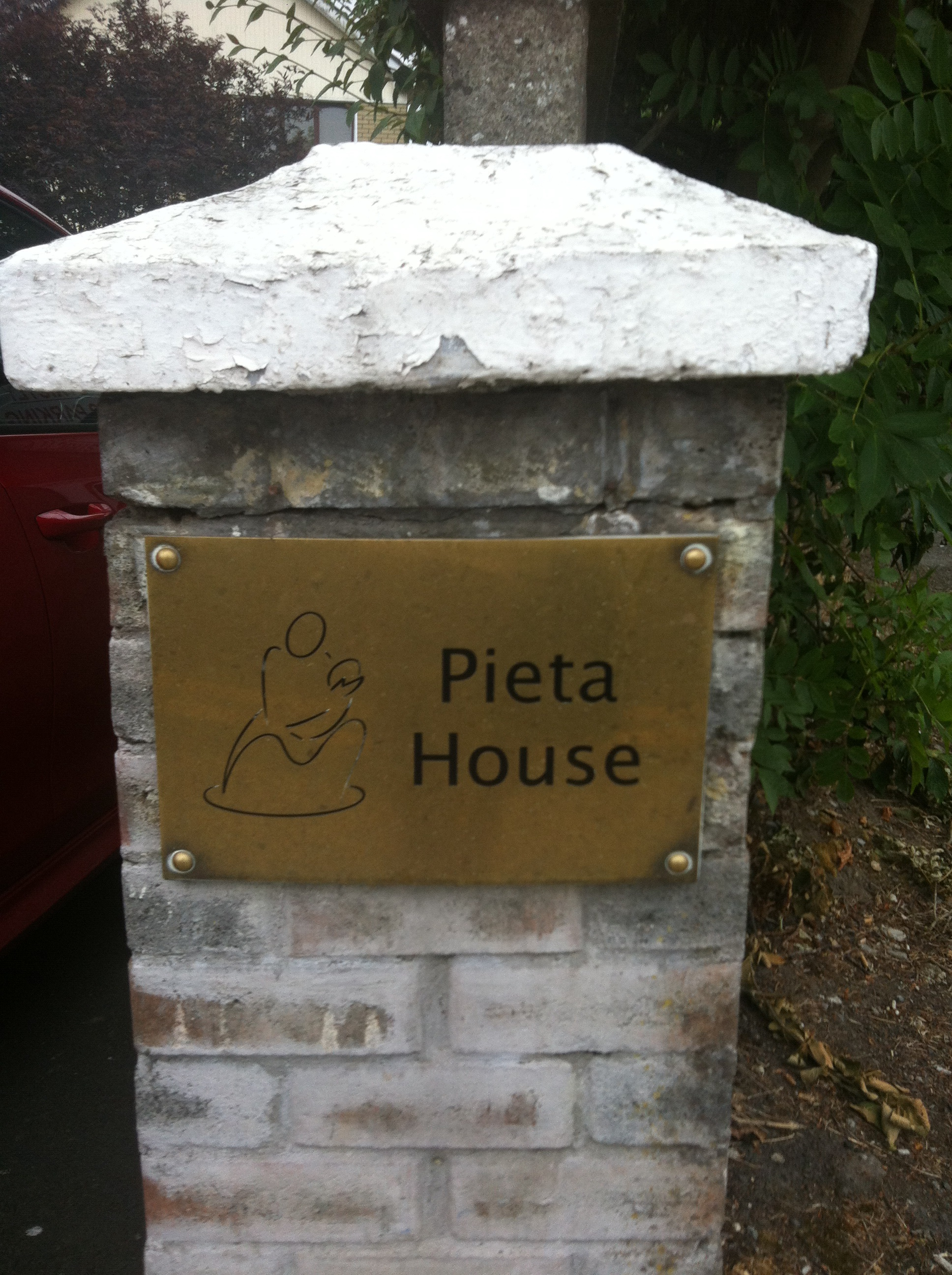 This is a photograph of the sign displayed outside the Pieta House location in Lucan, Co. Dublin